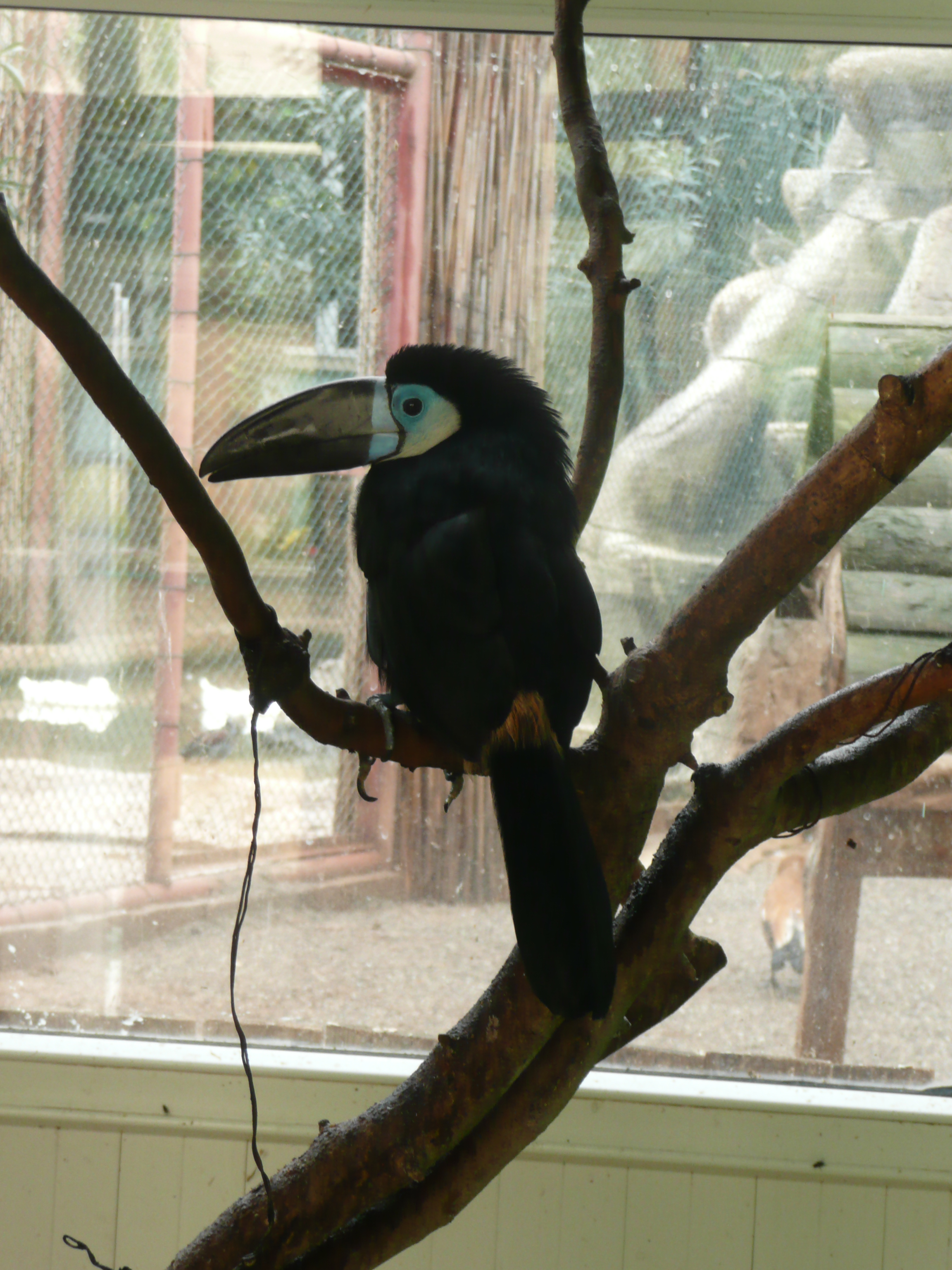 Ramphastos vitellinus. Photographs from Gaziantep Zoo